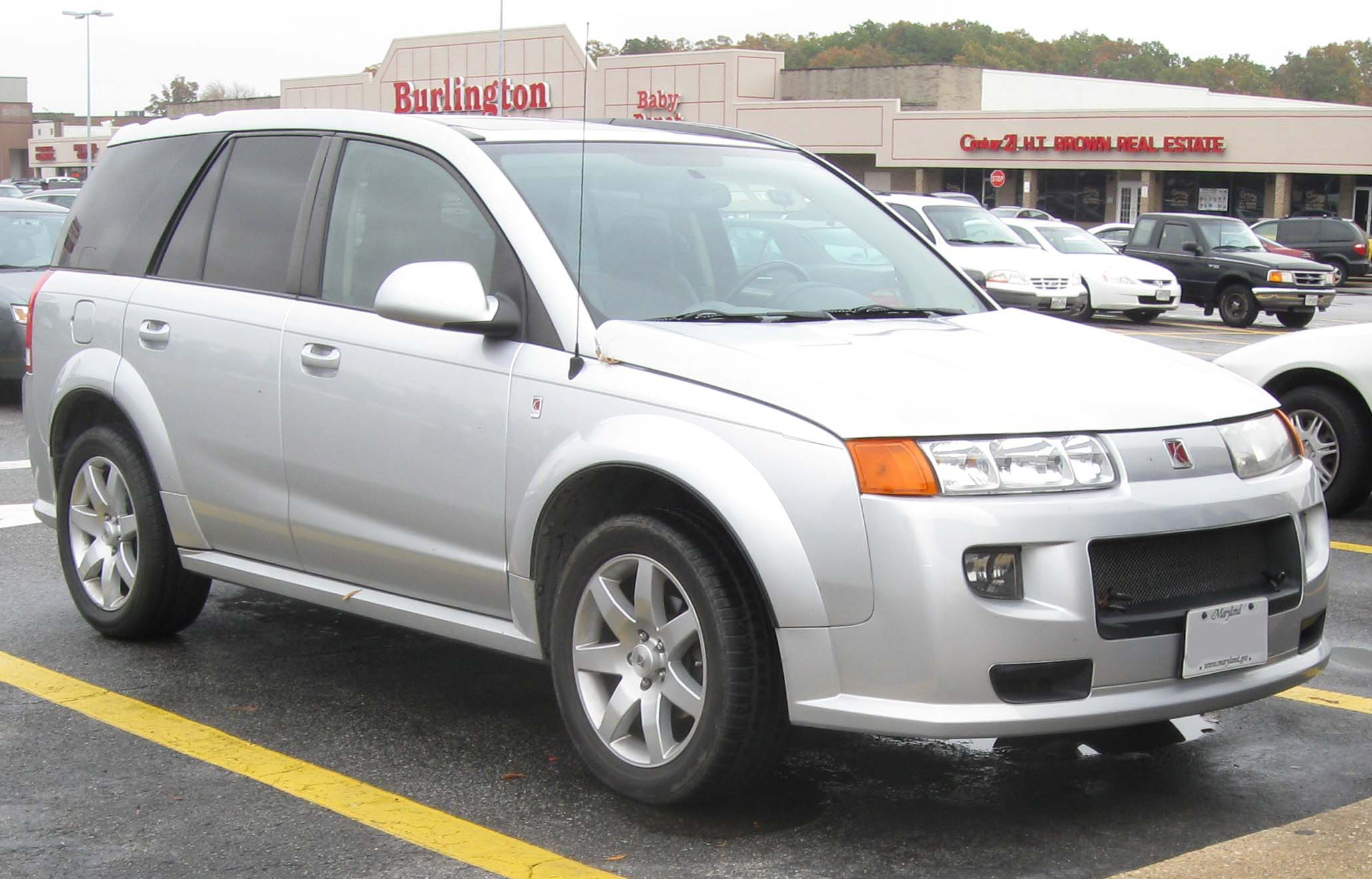 2004-2005 Saturn Vue RedLine photographed in Waldorf, Maryland, USA.